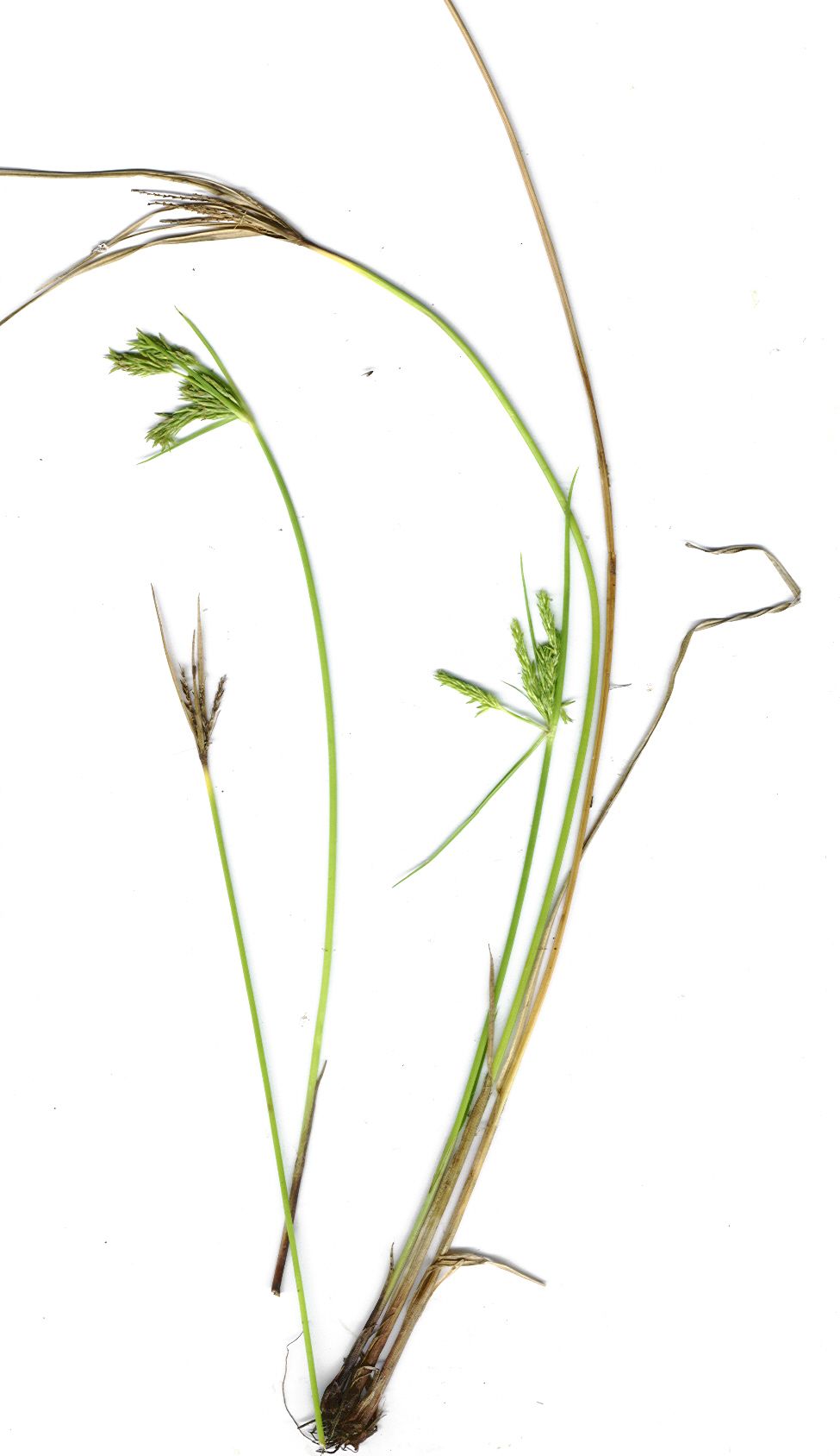 Cyperus cyperinus (plant). Location: Maui, Kanaio